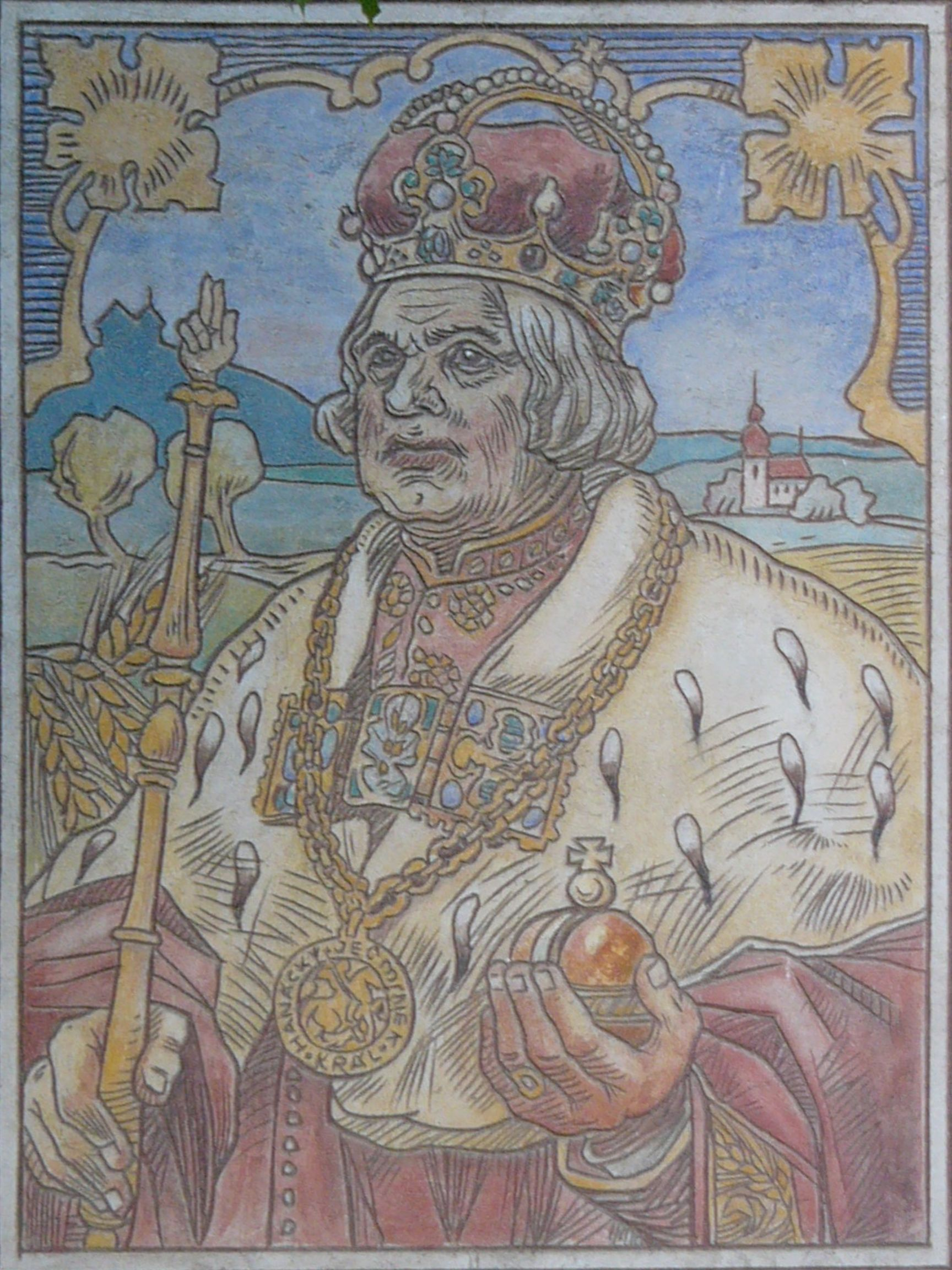 Sgraffito of legendary Moravian king Ječmínek in Prostějov.